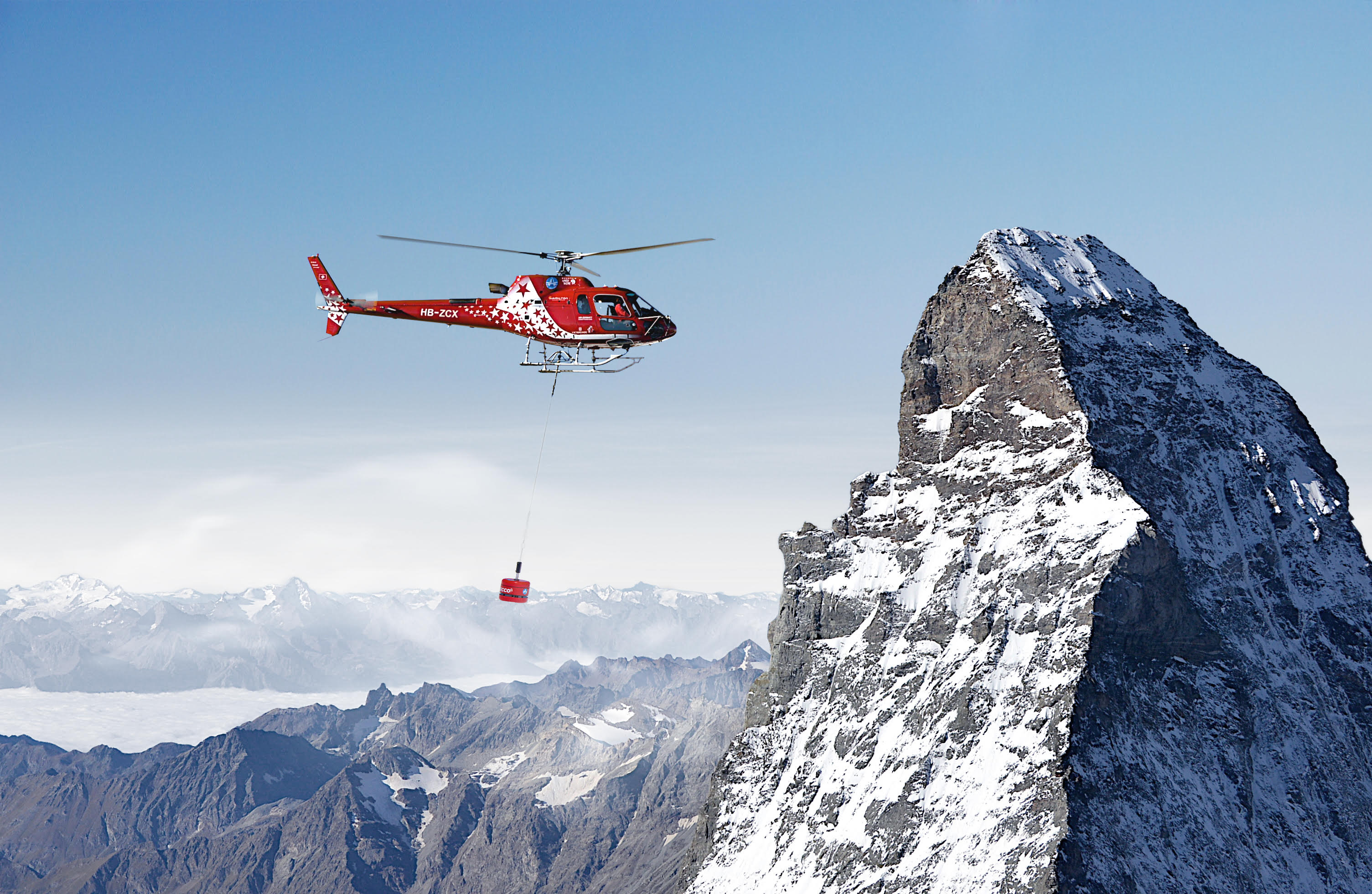 The picture shows a helicopter flying with a RECCO SAR detector / Mountains background